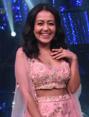 Neha Kakkar on the sets of Indian Idol in January 2020